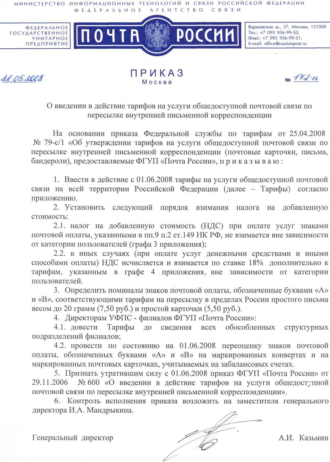 Copy of the official Post of Russia order regarding postage change dated and signed May 28th, 2008.